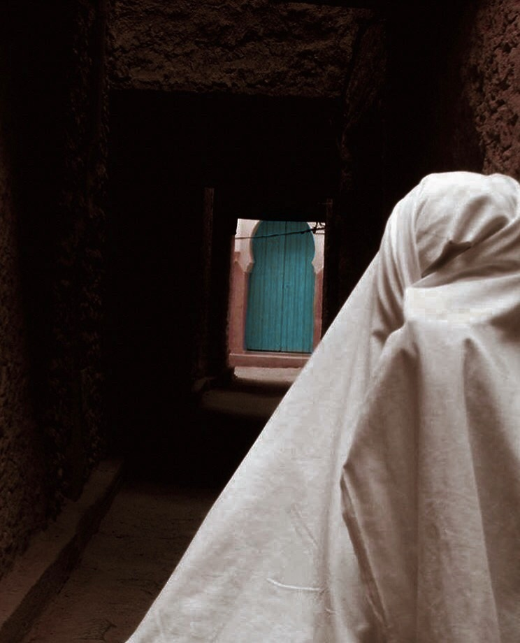 This is an image with the theme "Africa on the Move or Transport" from: Morocco